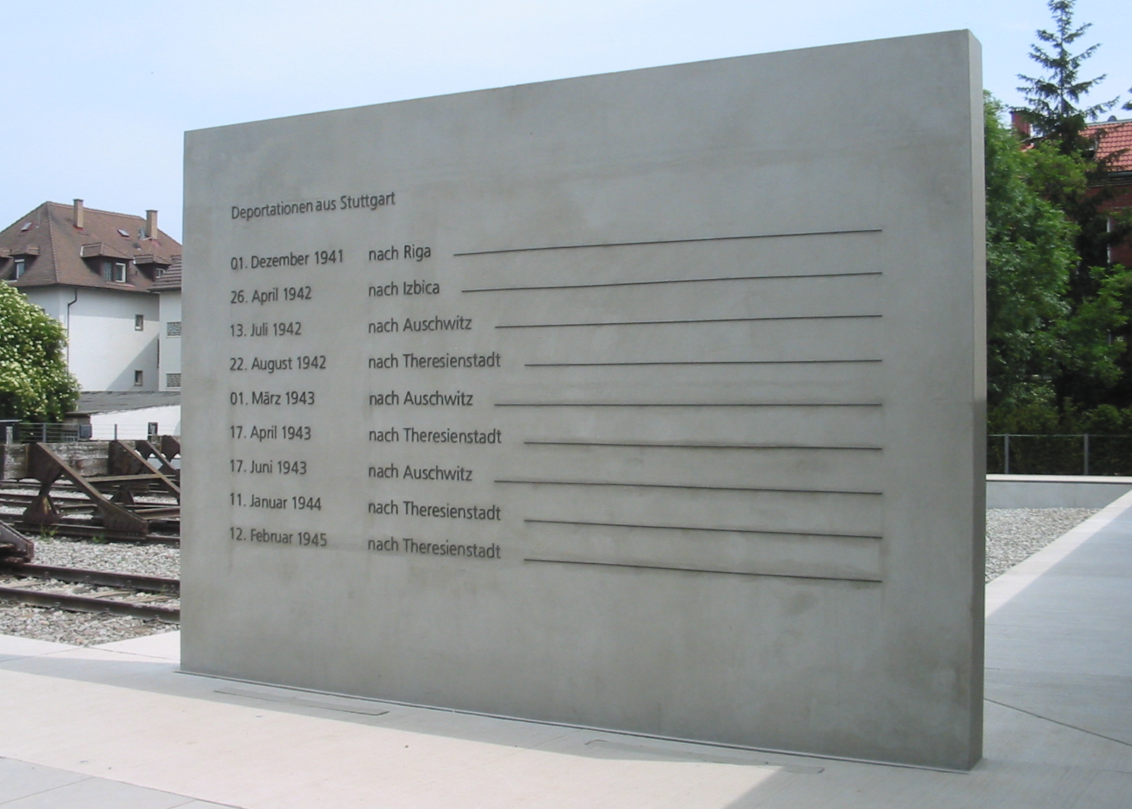 Memorial "Mark of Remembrance" in Stuttgart